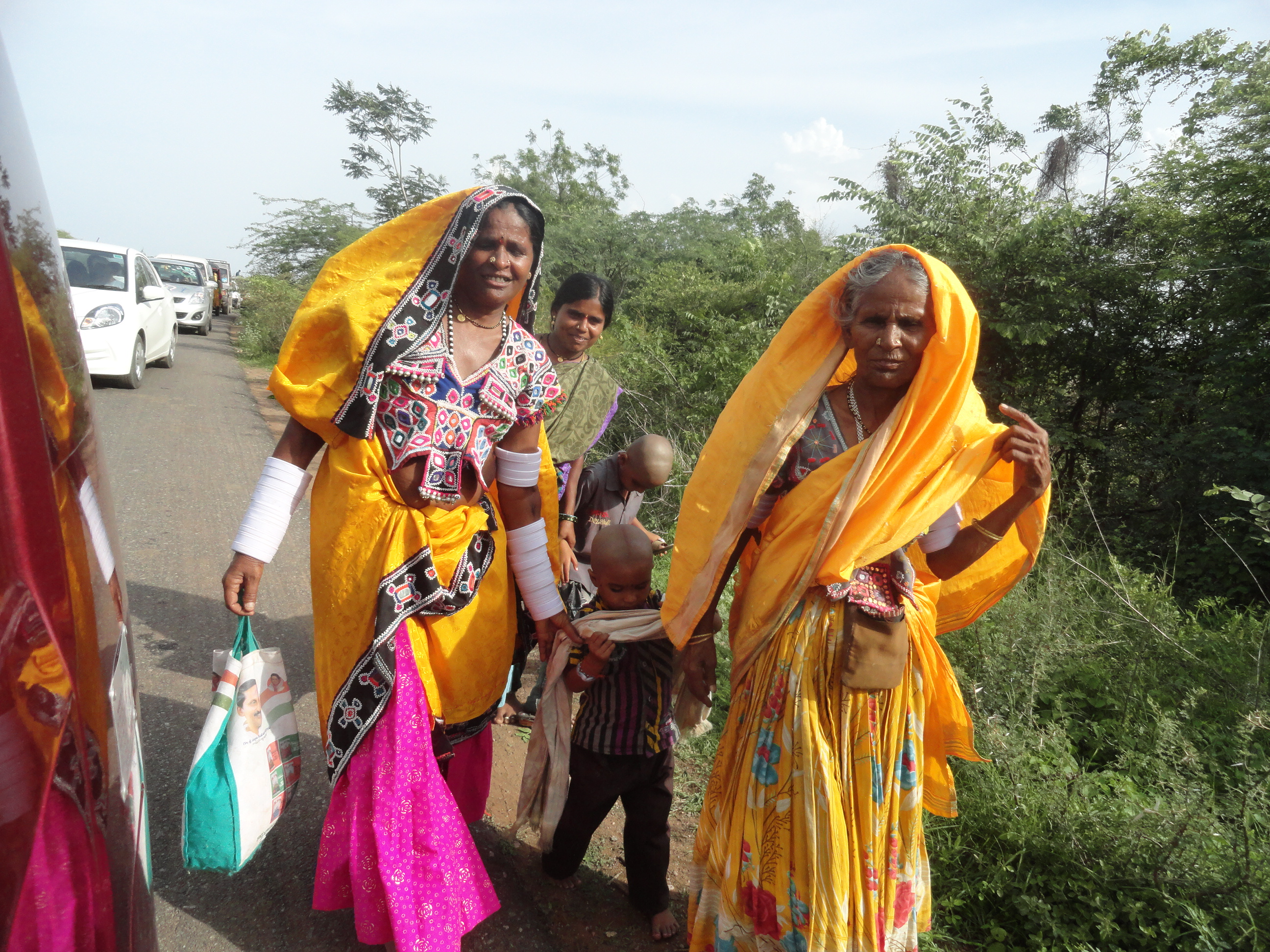 లంబాడ స్త్రీలు